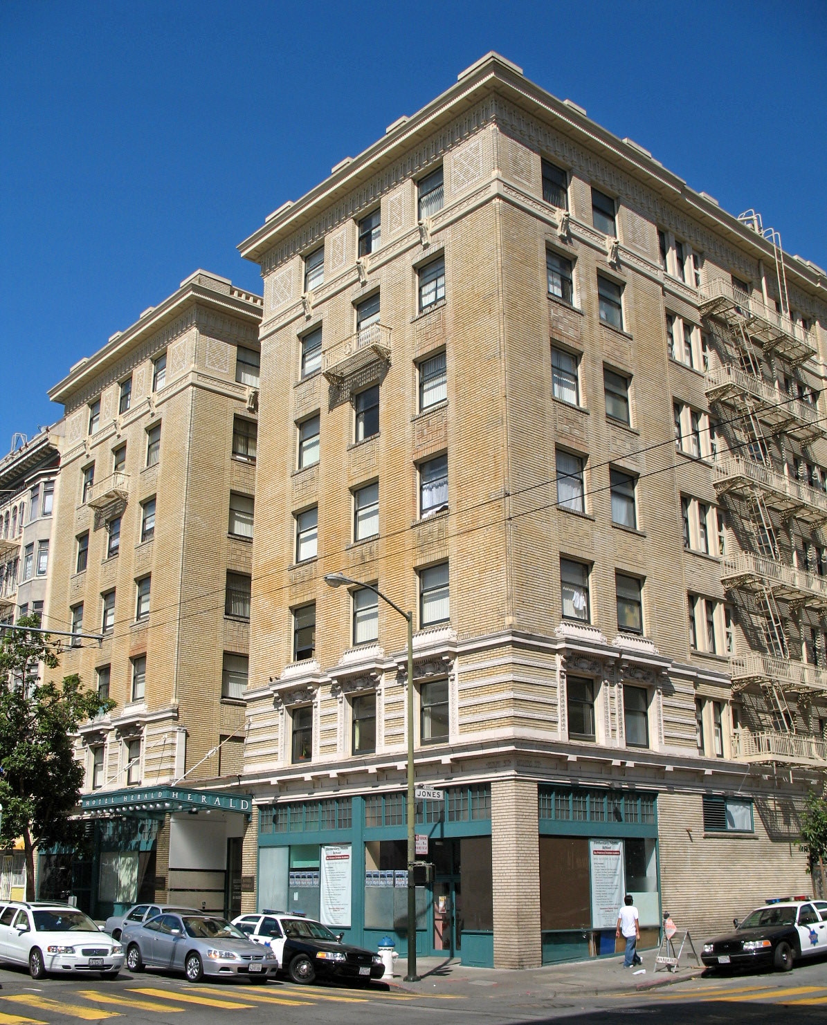 National Register of Historic Places listings in San Francisco, California. Herald Hotel, 308 Eddy St., San Francisco, California, USA. Photographed from the southeast corner of Eddy and Jones Sts.